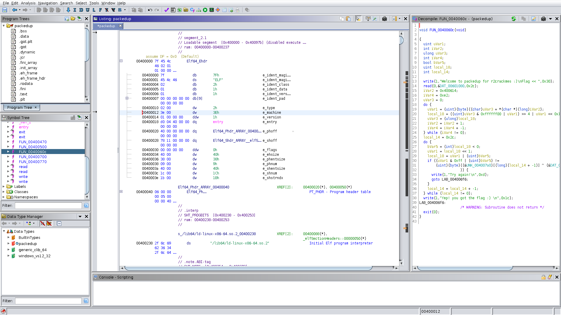 The Ghidra Disassembly framework disassembling an executable file